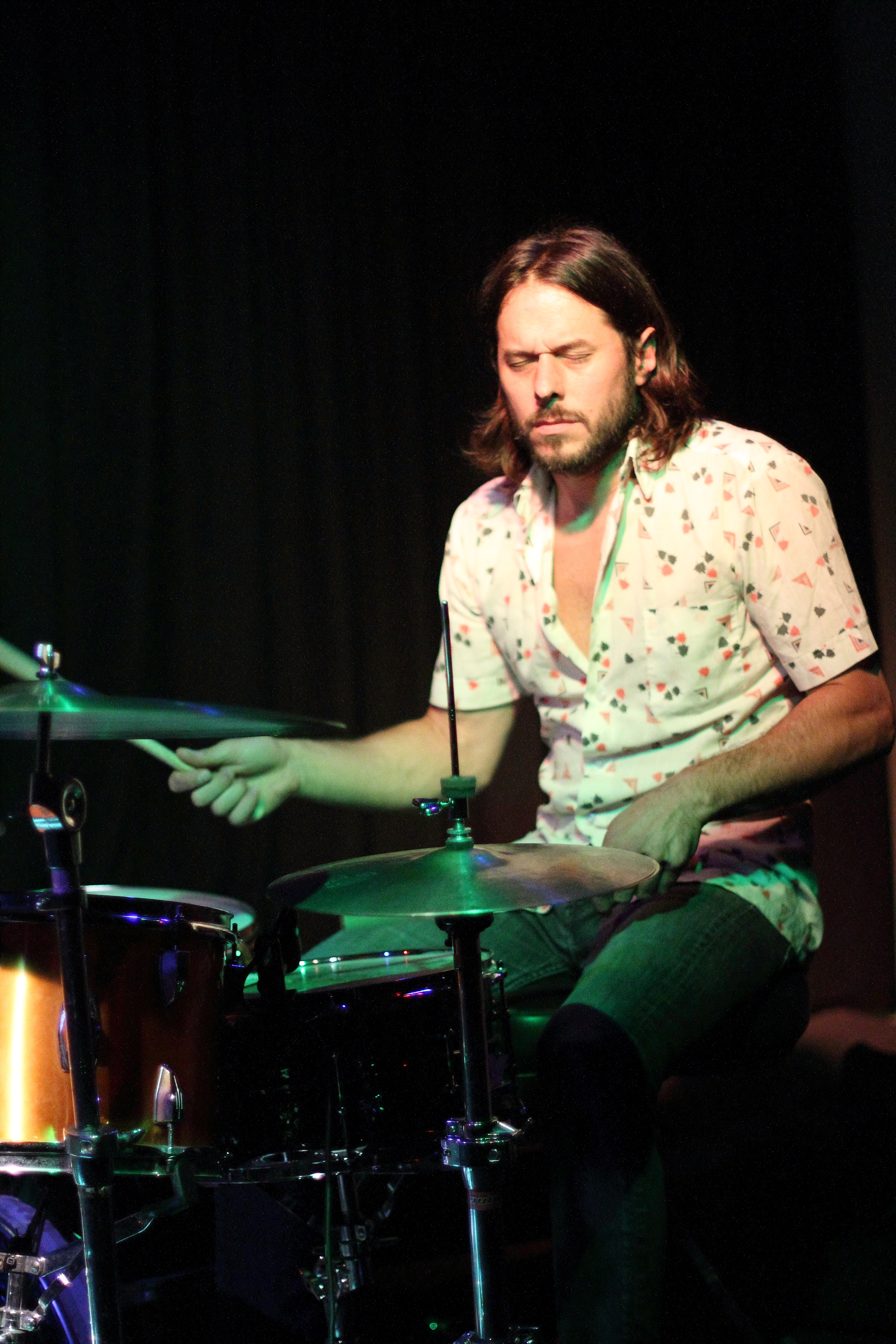 Brian Sulpizios´s Health & Beauty with jazz drummer Frank Rosaly performing at Club W71, Weikersheim.